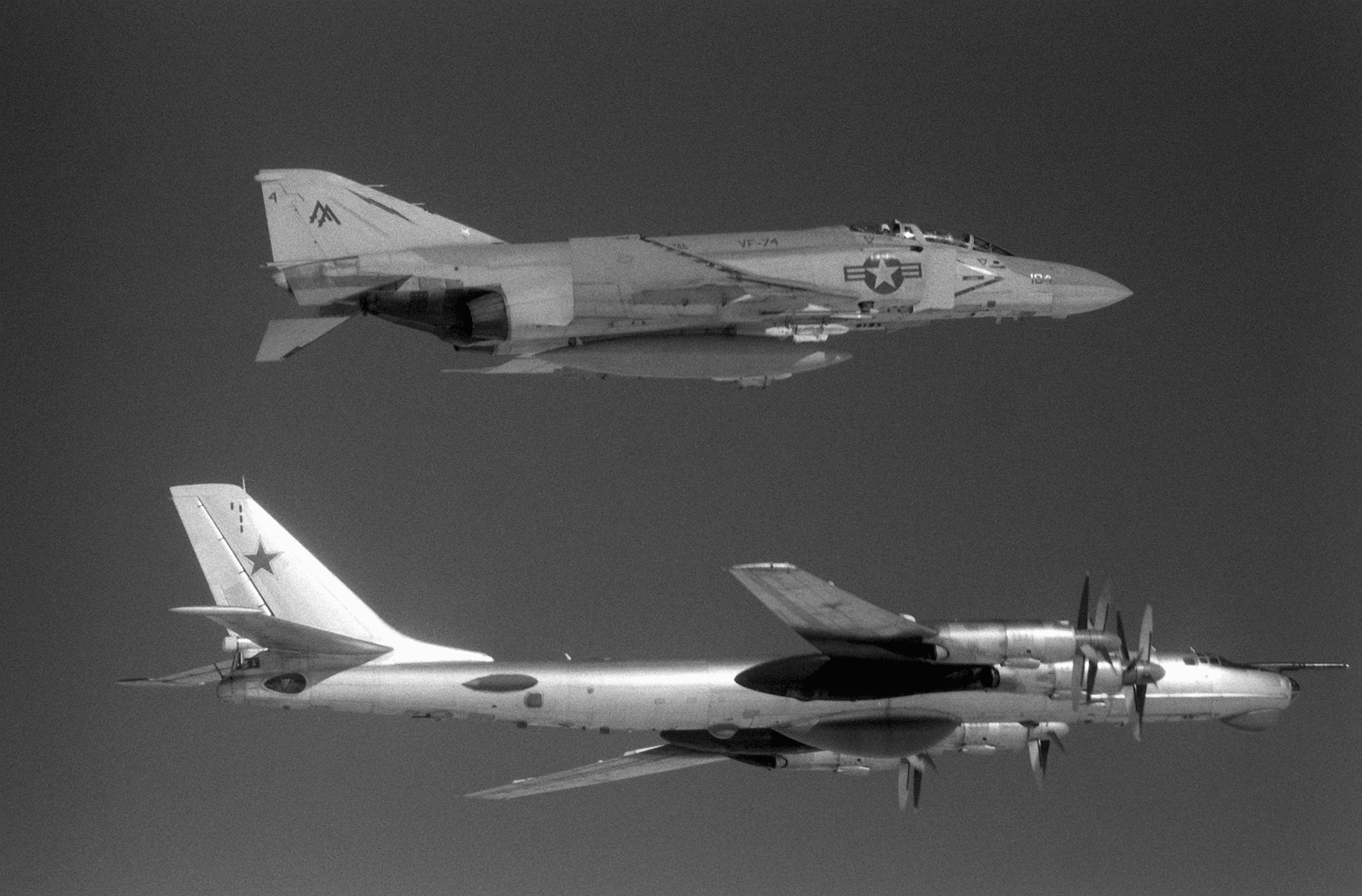 An U.S. Navy McDonnell Douglas F-4S Phantom II from Fighter Squadron 74 (VF-74) "Be-Devilers" intercepts a Soviet Tupolev Tu-95 (NATO reporting code "Bear D") about 70 km off the coast of the U.S. State of Virginia. The F-4S was escorting the Cuba-based Tu-95, which had just penetrated the U.S. air defense zone to aerially view sea trials of the (then) new nuclear-powered aircraft carrier USS Carl Vinson (CVN-70) on 26 January 1982.